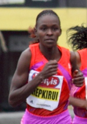 Leading women at ~1.6 km during Hervis Prague Half Marathon 2012 #F3 Joyce Chepkirui KEN 01:07:02